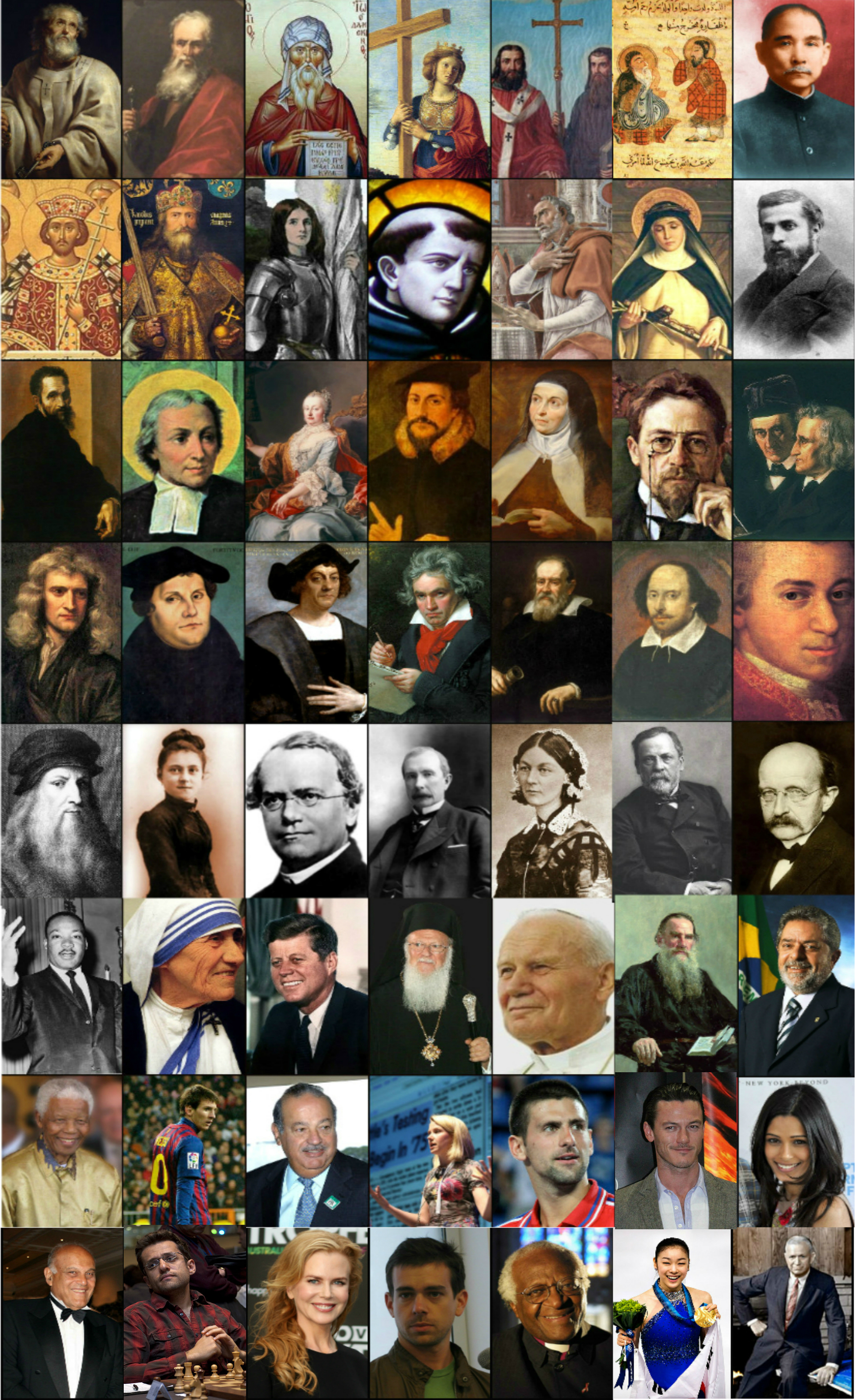 Collage of photos of 56 Christians known figures - Saint Peter, Paul the Apostle, John of Damascus, Saint Helena, Saints Cyril and Methodius, Bukhtishu, Sun Yat-sen, Constantine the Great, Charlemagne, Joan of Arc, Thomas Aquinas, Augustine of Hippo, Catherine of Siena, Antoni Gaudi, Michelangelo, Jean-Baptiste de La Salle, Maria Theresa, Jean Calvin, Teresa of Ávila, Anton Chekhov, Brothers Grimm, Isaac Newton, Martin Luther, Christopher Columbus, Ludwig van Beethoven, Galileo Galilei, William Shakespeare, Wolfgang Amadeus Mozart, Leonardo da Vinci, Thérèse of Lisieux, Gregor Mendel, John D. Rockefeller, Florence Nightingale, Louis Pasteur, Max Planck, Martin Luther King, Jr., Mother Teresa, John F. Kennedy, Patriarch Bartholomew I of Constantinople, Pope John Paul II, Leo Tolstoy, Luiz Inácio Lula da Silva, Nelson Mandela, Lionel Messi, Carlos Slim Helú, Marissa Mayer, Novak Djokovic, Luke Evans, Freida Pinto, Magdi Yacoub, Levon Aronian, Nicole Kidman, Jack Dorsey, Desmond Tutu, Kim Yuna, J. Willard Marriott. Christians have made a myriad contributions in a broad and diverse range of fields, including the sciences, arts, politics, literatures and business. According to 100 Years of Nobel Prizes a review of Nobel prizes award between 1901 and 2000 reveals that (65.4%) of Nobel prizes Laureates, have identified Christianity in its various forms as their religious preference. Overall, Christians have won a total of 78.3% of all the Nobel Prizes in Peace, 72.5% in Chemistry, 65.3% in Physics, 62% in Medicine, 54% in Economics and 49.5% of all Literature awards. Anyone can use these original photos themselves among others and make another collage of (Christians) themselves or remix as they wish, as long as they give the correct source and usage/Copyright given. Dont delete the photos, if one becomes unusable due to copyright, please dont delete, just replace the photo or i will.